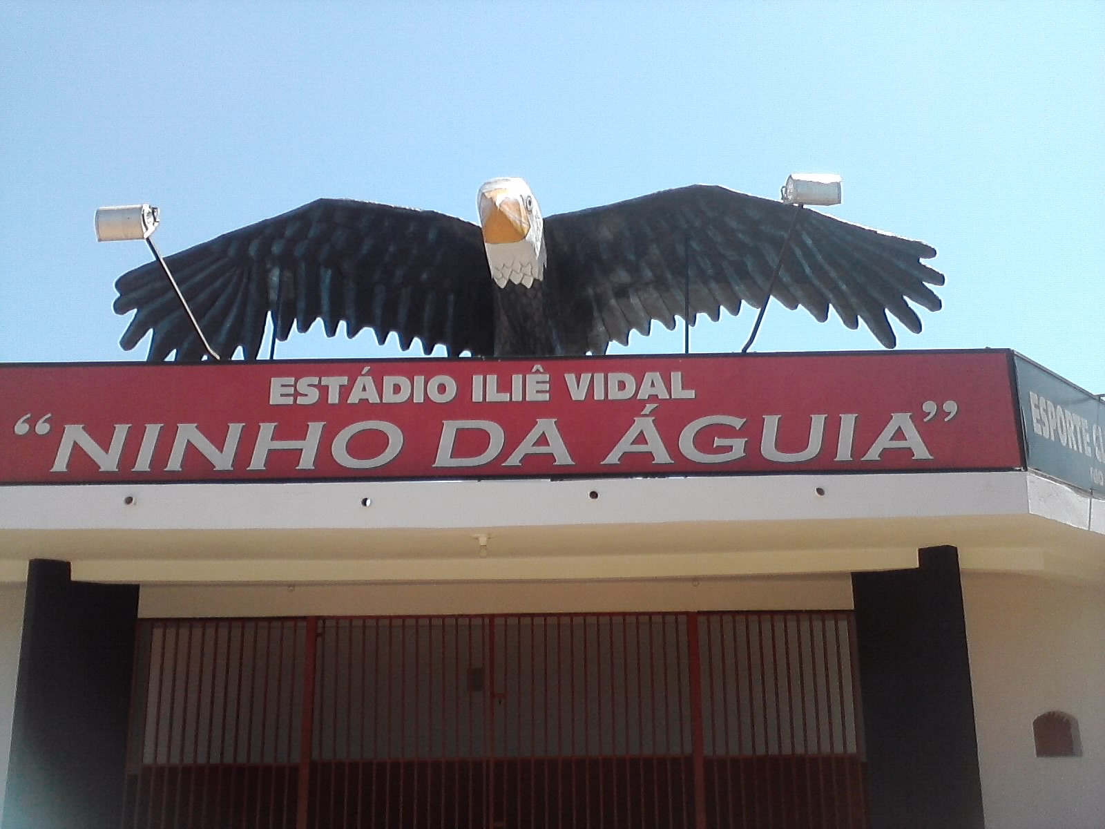 Facade of Stadium Iliê Vidal, the "Eagle's Nest", Esporte Clube Águia Negra's stadium, in Rio Brilhante, Mato Grosso do Sul.